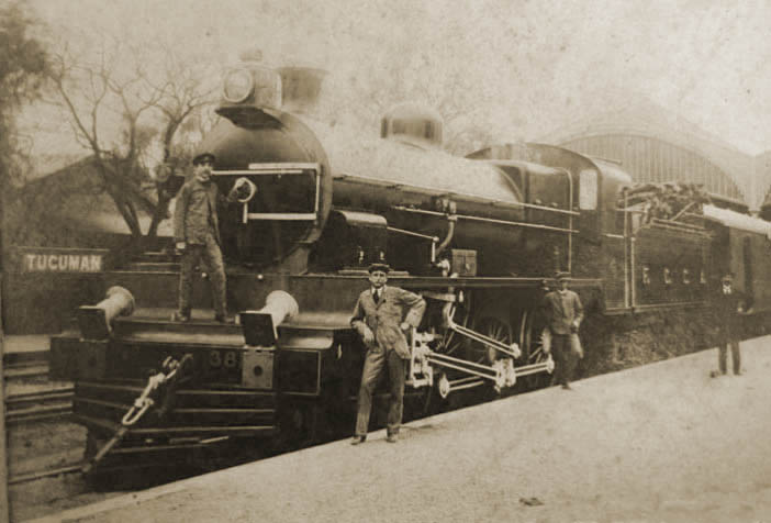 A group of railway workers posing with a steam locomotive in Tucumán station of Central Argentine Railway.